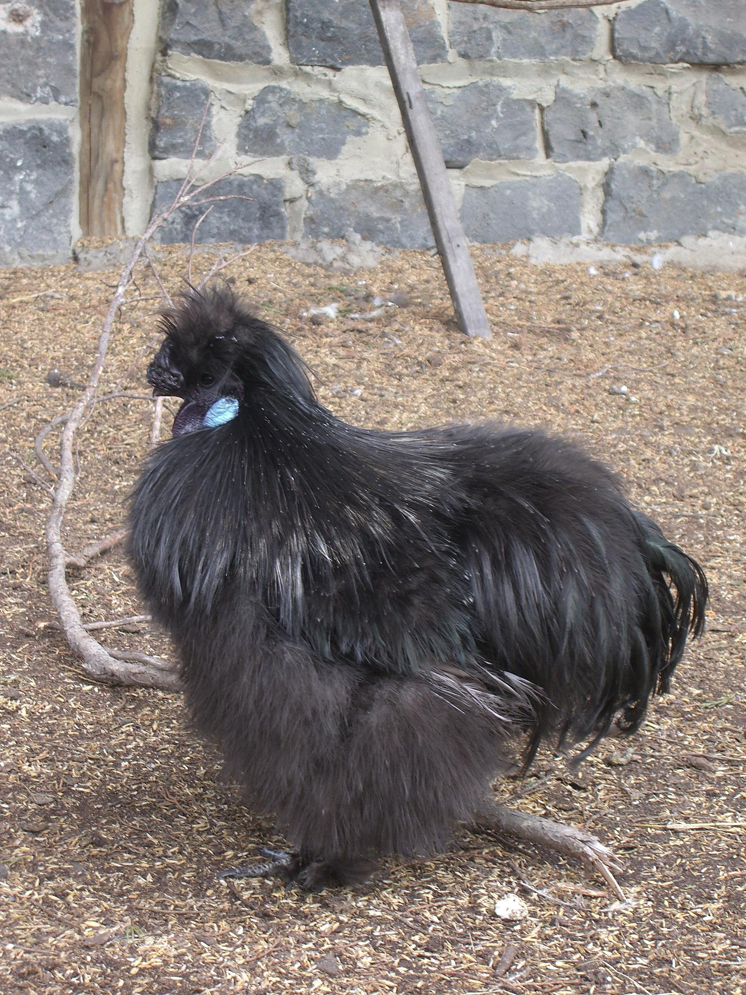 A Black Silkie rooster at Collingwood Children's Farm